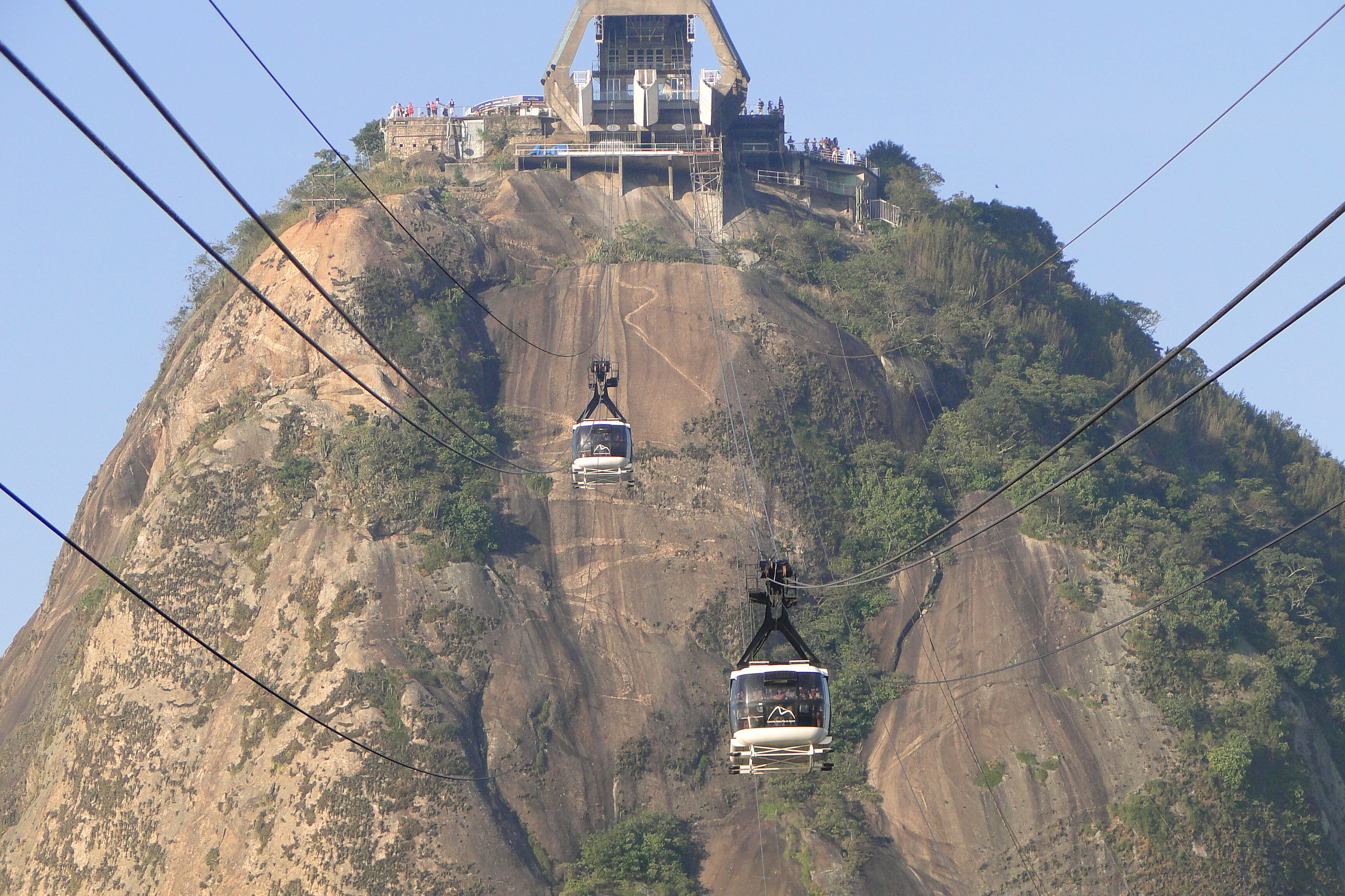 Cable Cars from Sugarloaf Mountain-Pao de Acucar - Rio de Janeiro - Brazil